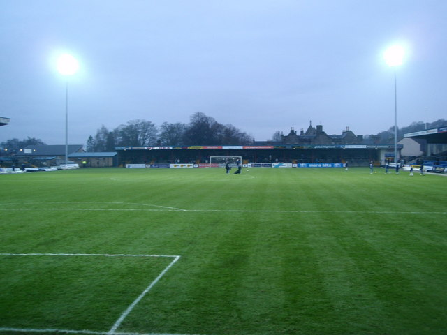 The Jail End, Victoria Park This is the view from the visiting end looking across to the covered terracing known locally as "The Jail End". It's called this because behind can be seen a large building which used to serve as the local jail.